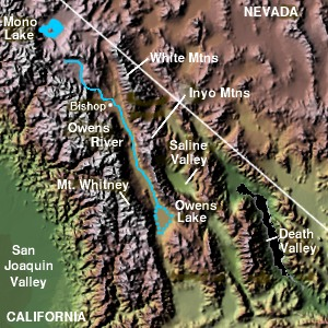 Inyo Mountains © 2004 Matthew Trump